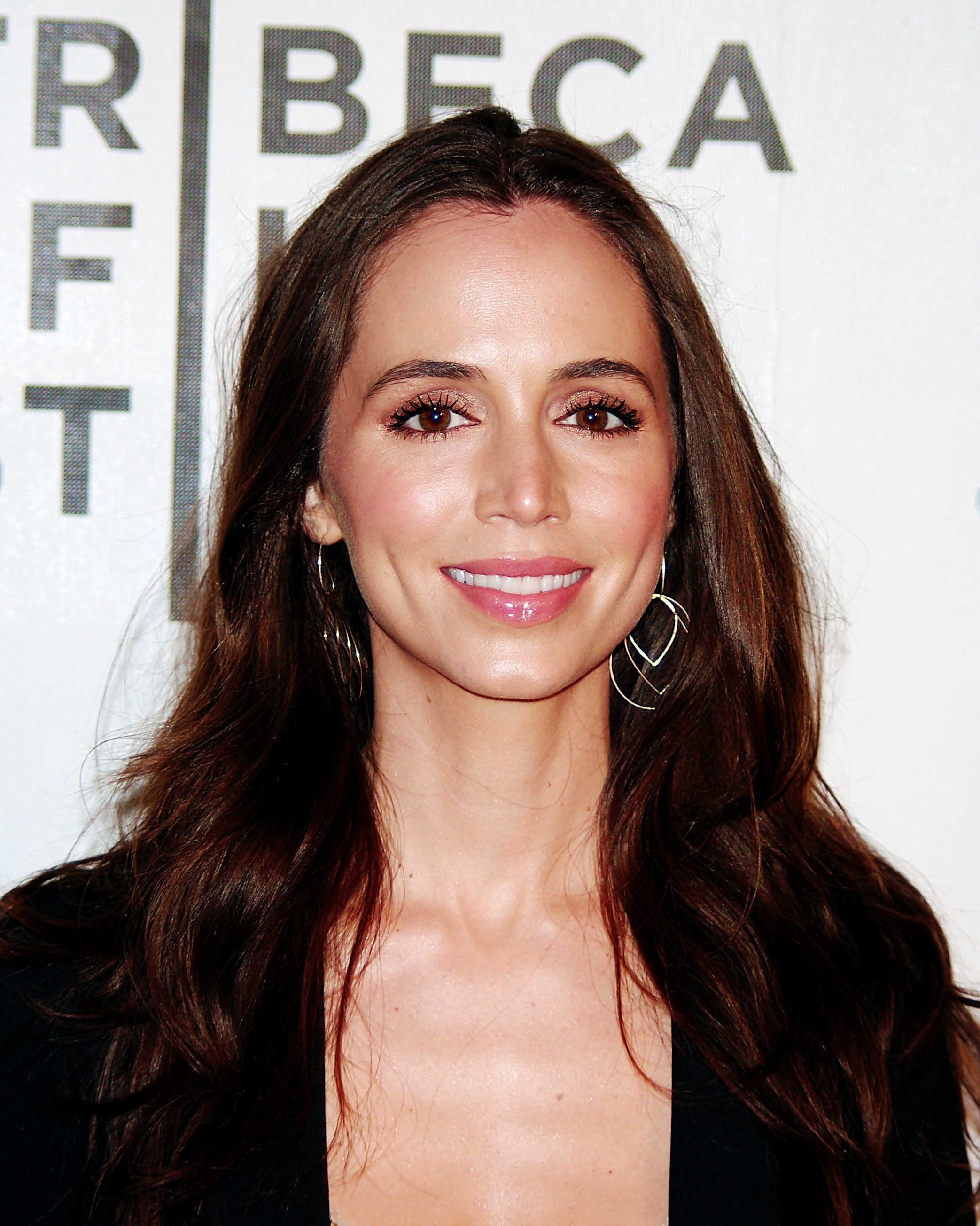 Eliza Dushku at the 2012 Tribeca Film Festival premiere of Struck by Lightning.